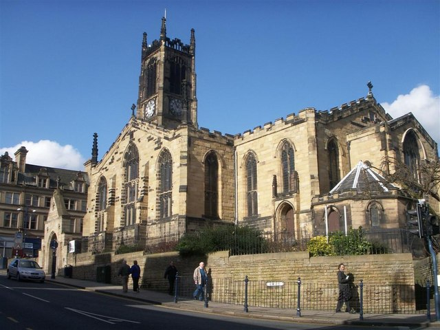 The church of St Peter - Kirkgate This has been the site of a Church for almost 1000 years. One up to date feature is the 'Key's Cafe' which has been built into the excavated crypt.